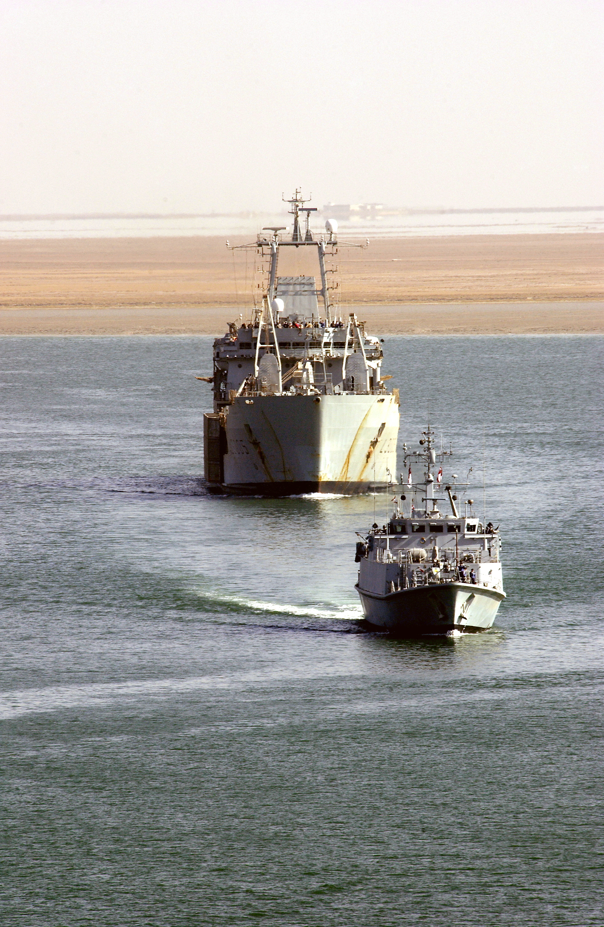 Umm Qasr, Iraq (Mar. 28, 2003) -- The Royal Fleet Auxiliary, Landing Ship Logistic RFA Sir Galahad (L 3005) arrives in the Iraqi port city of Umm Qasr delivering the first shipment of humanitarian aid from coalition forces. Sir Galahad, with a capability of carrying approximately 400 troops, with a beaching capacity of 3,440 tons, is the first ship to deliver coalition humanitarian supplies in support of Operation Iraqi Freedom. It is currently loaded with 232,300 Kg. of supplies for the people of Iraq. Operation Iraqi Freedom is the multi-national coalition effort to liberate the Iraqi people, eliminate Iraq’s weapons of mass destruction, and end the regime of Saddam Hussein. U.S. Navy photo by Photographer’s Mate 2nd Class Bob Houlihan. (RELEASED)